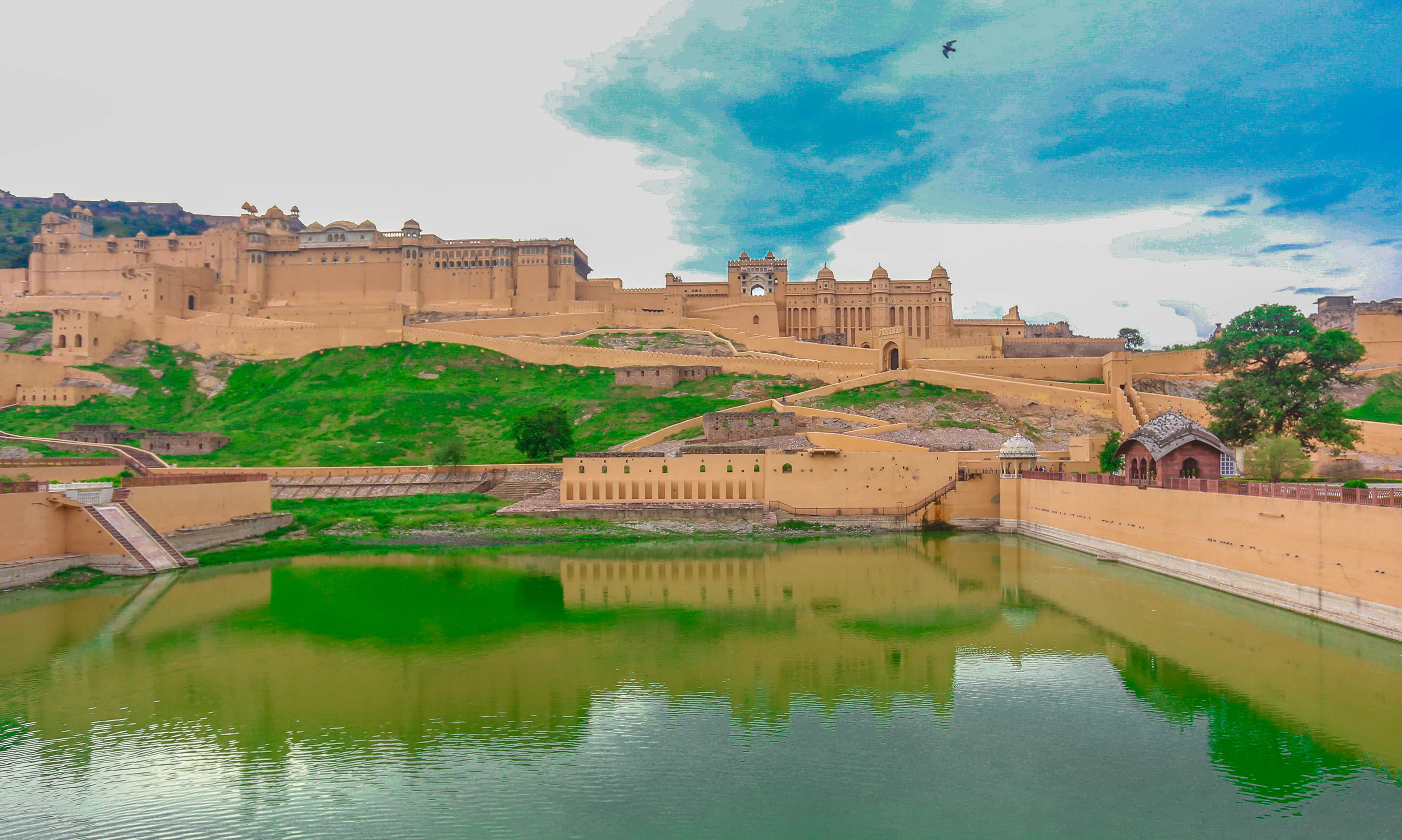 Amber Palace on Hill, Amber